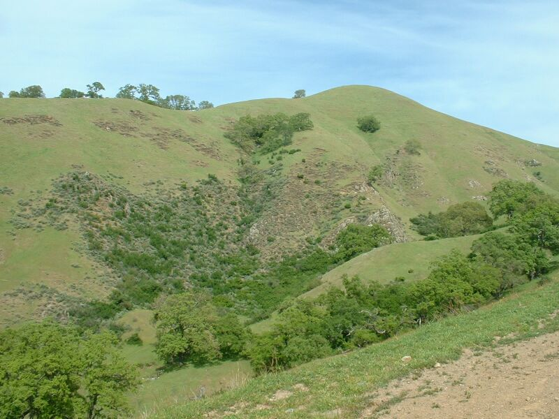 Hillside in Sunol Regional Wilderness of the East Bay Regional Parks District - in Alameda County, northern California.